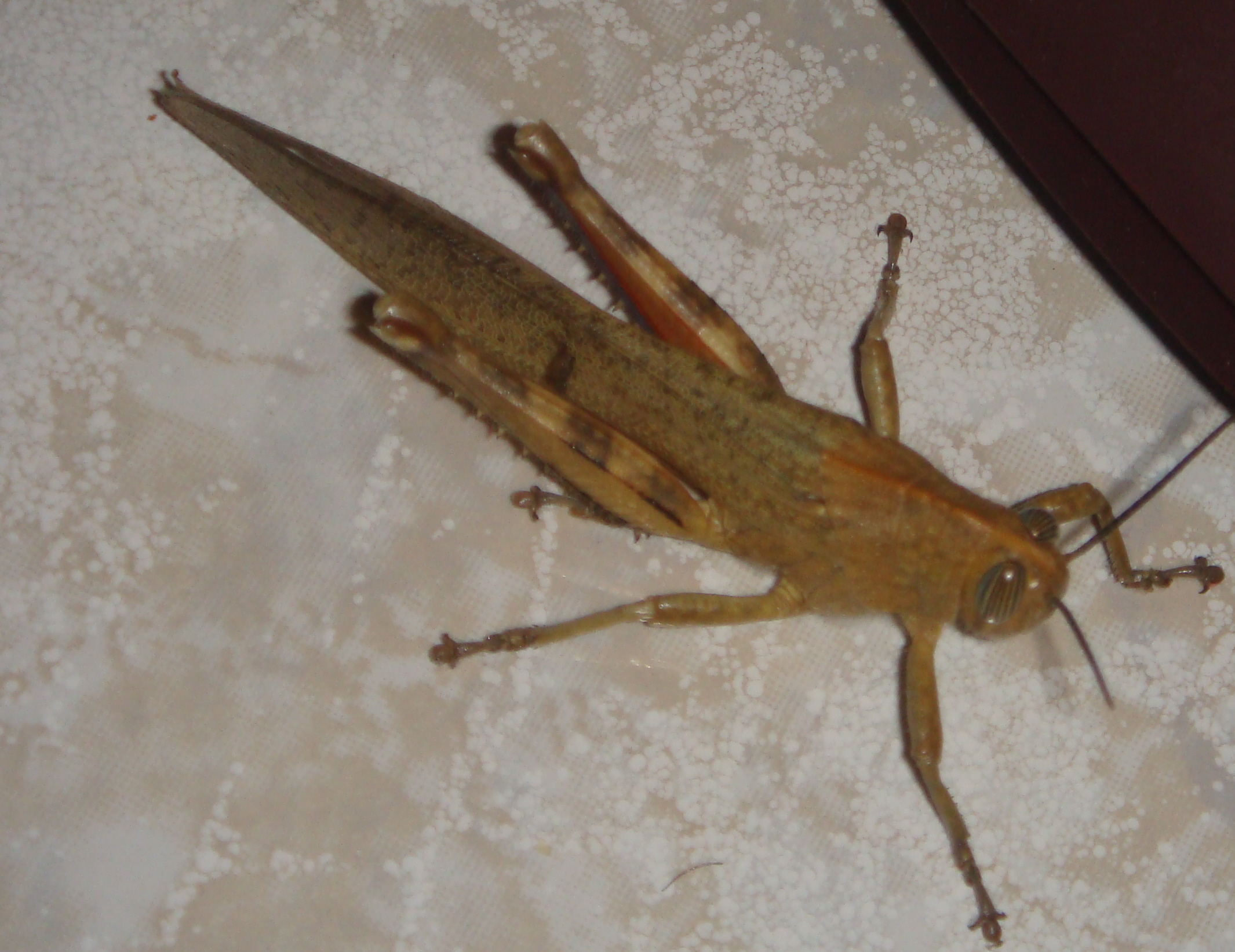 A grasshopper from Pieria, Greece.